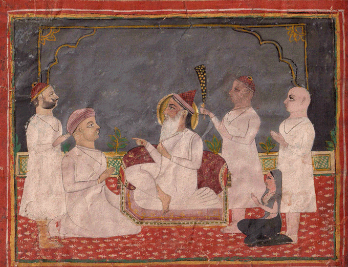 Guru-darshan Deccan, Hyderabad, c.1800